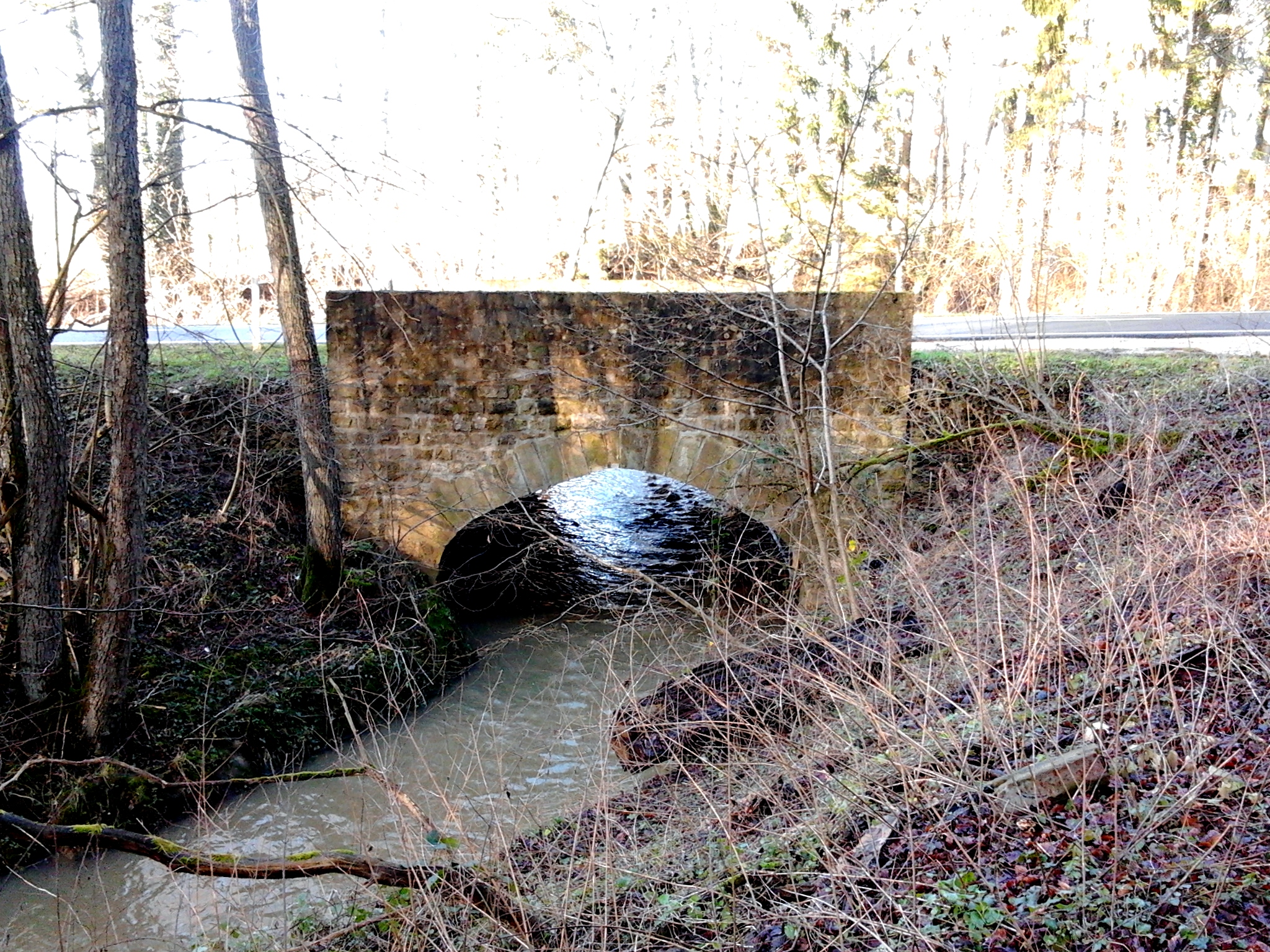 Bridge over the river Kielbaach in Mamer, Luxembourg. The road is the CR102.